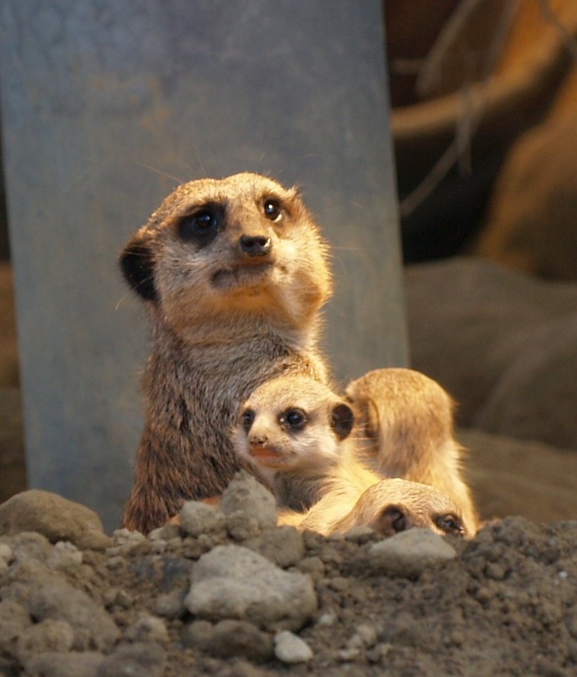 Adult female Suricata suricatta with young. Cologne Zoo, Germany.